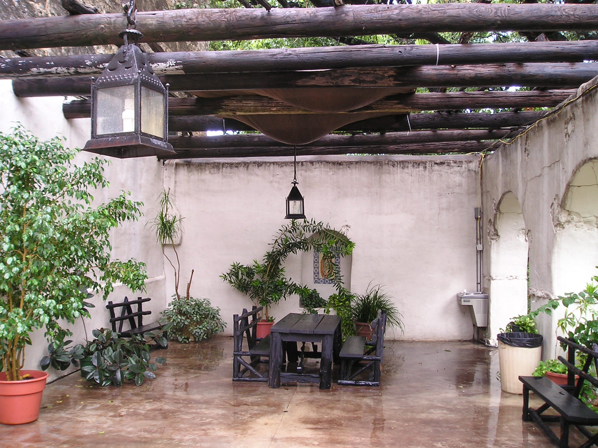 Inside of Spanish Govenors Palace in San Antonio, Texas. Built 1749.